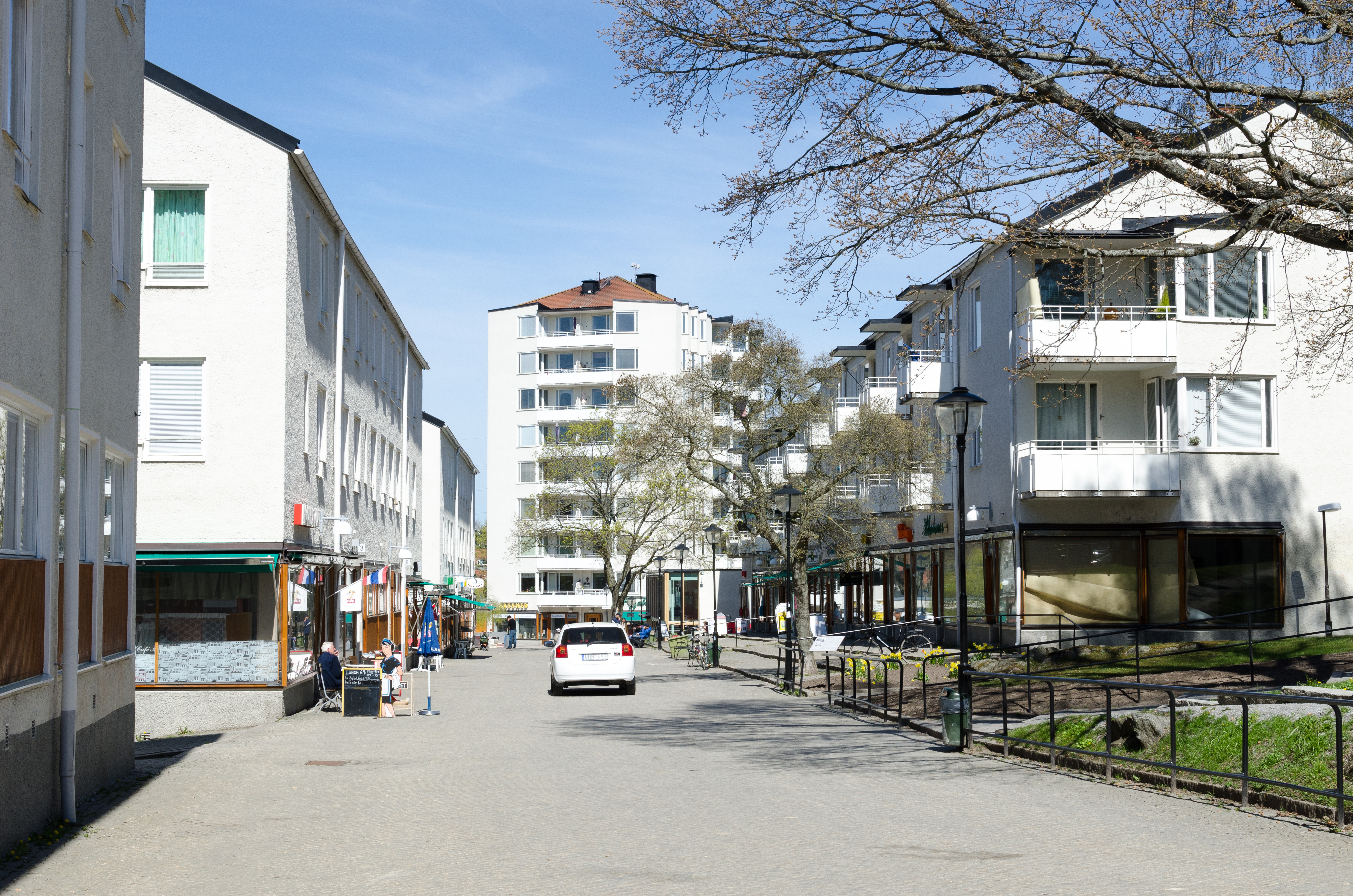 Hökarängen Centre. Completed in 1950. Architect David Helldén. Hökarängen Centre includes the first pedestrianised shopping street in Sweden.